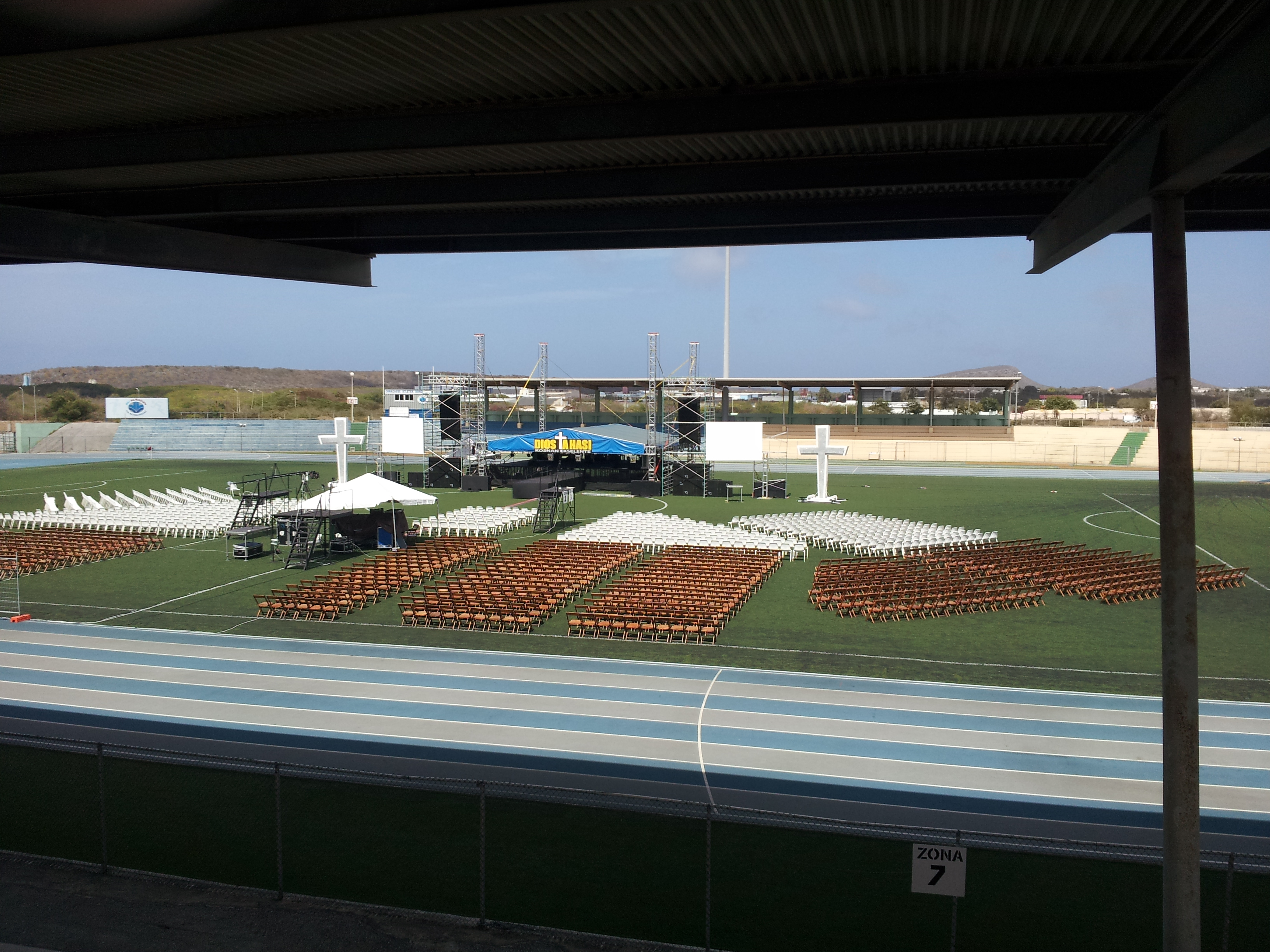 Entrance / Logo of Stadion Ergilio Hato